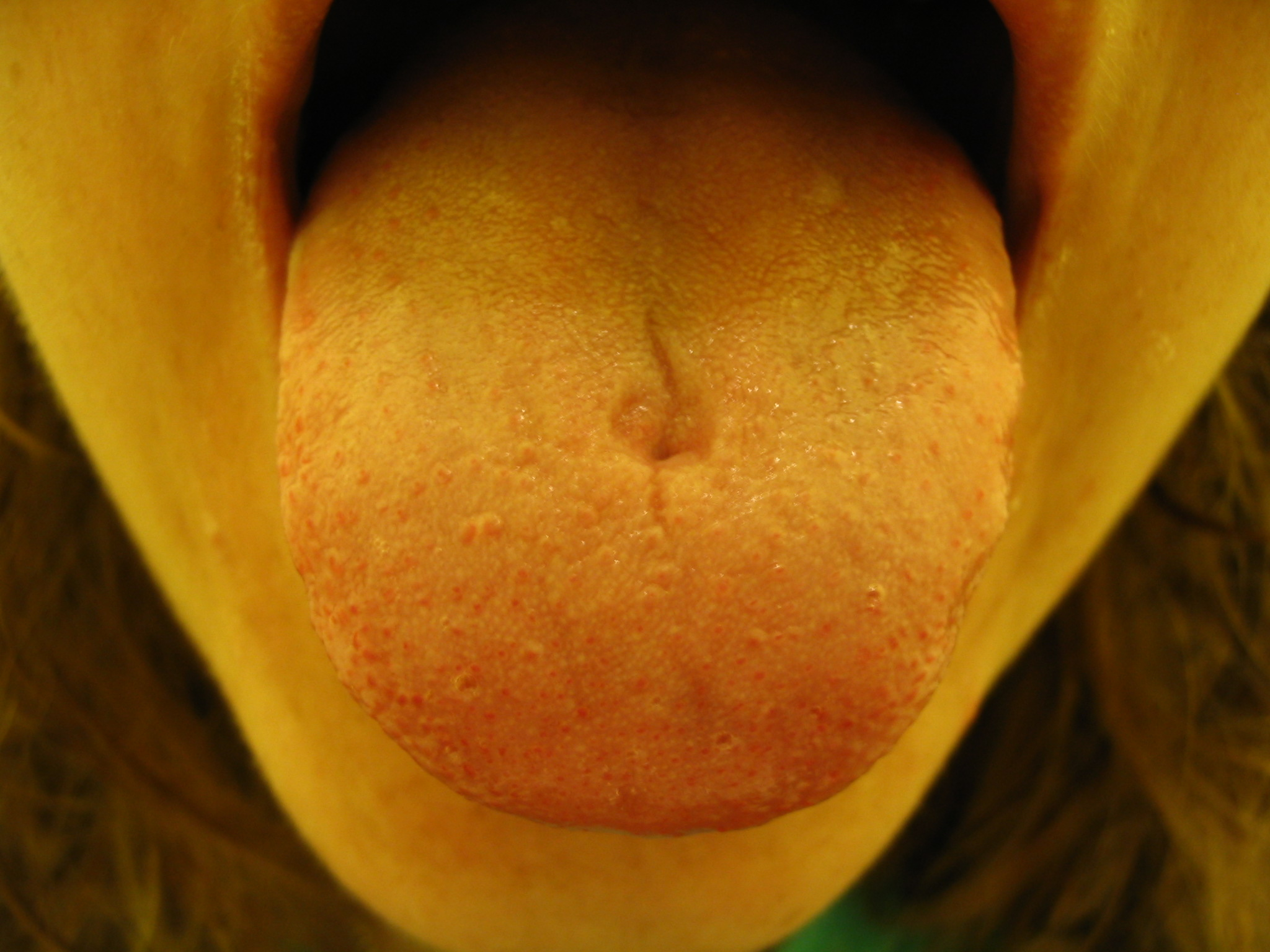 Scar of a tongue piercing on the upper part of the tongue